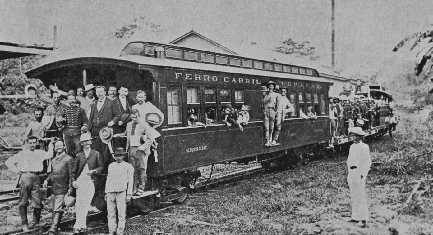 Ferrocarril Verapaz en 1895.